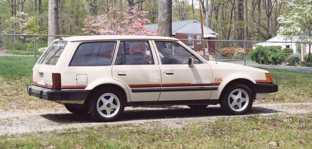 Side view of a 1988 Soleq EVcort electric car Author: Lawrence F Povirk Camera: Minolta 35mm Date: June, 2008